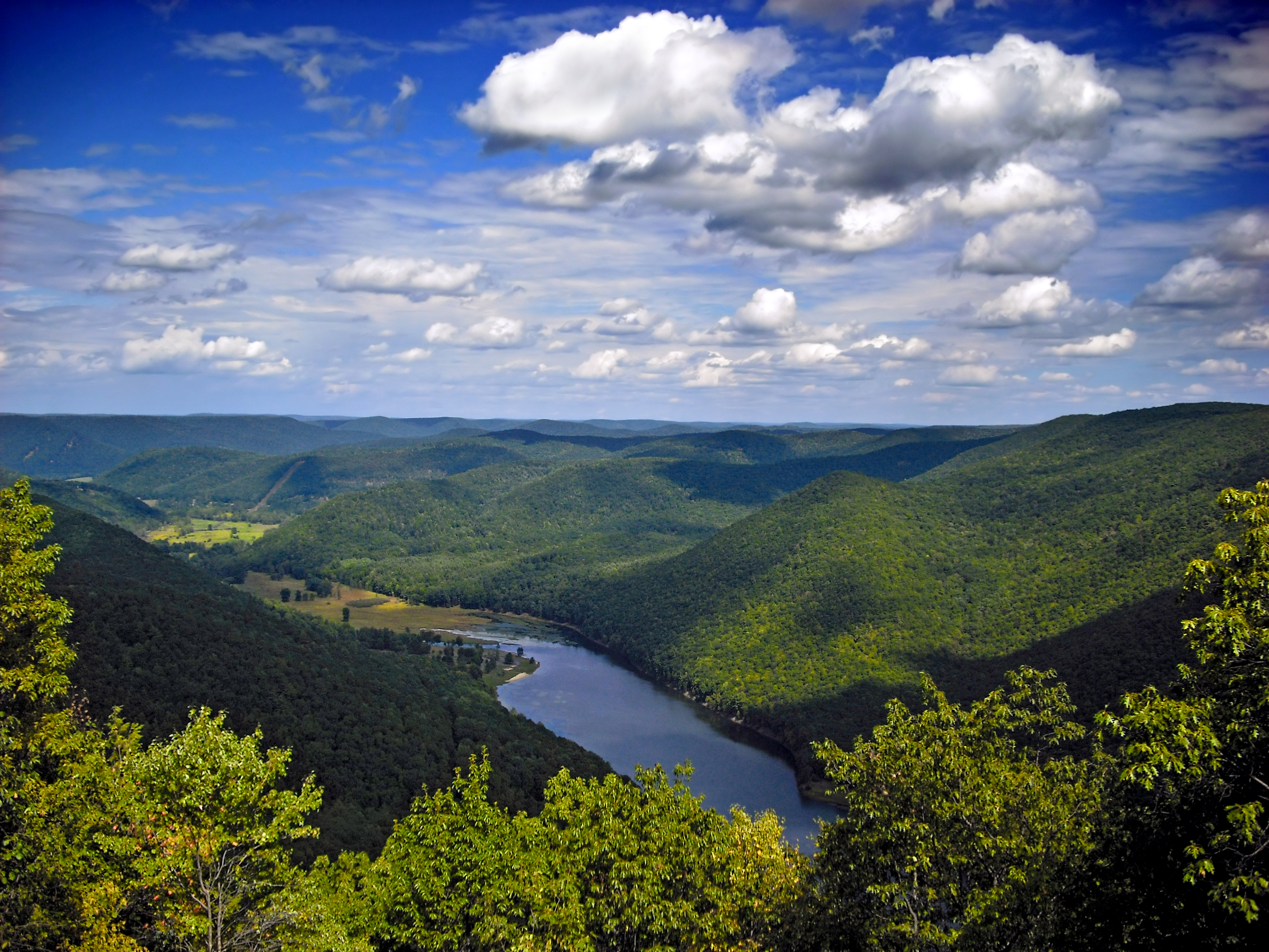 Northeast-facing vista (elevation approximately 2080 feet [634 meters]), Clinton County, within Kettle Creek State Park.